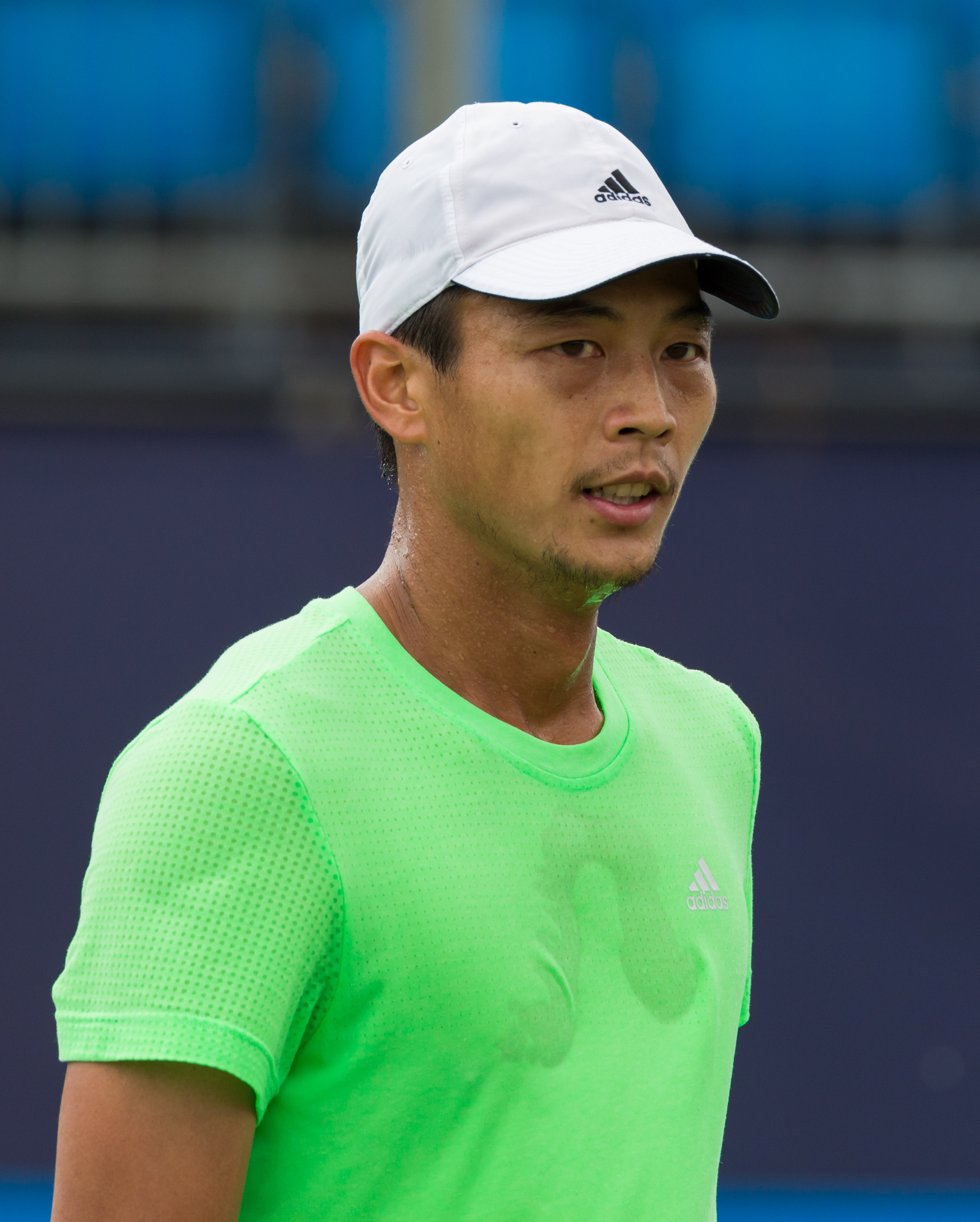 Lu Yen-hsun during practice at the Queens Club Aegon Championships in London, England.